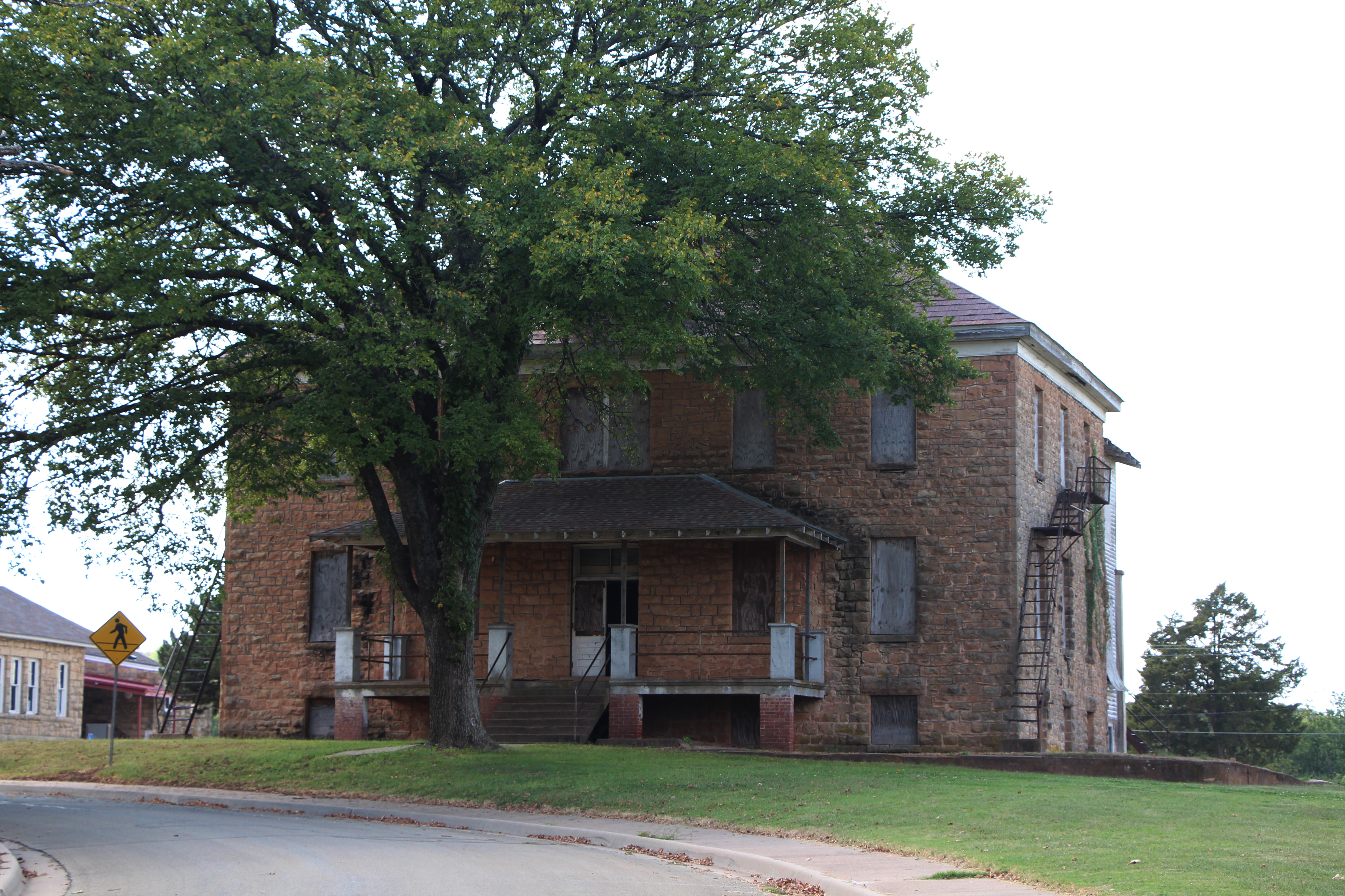 Boys Dorm East Side